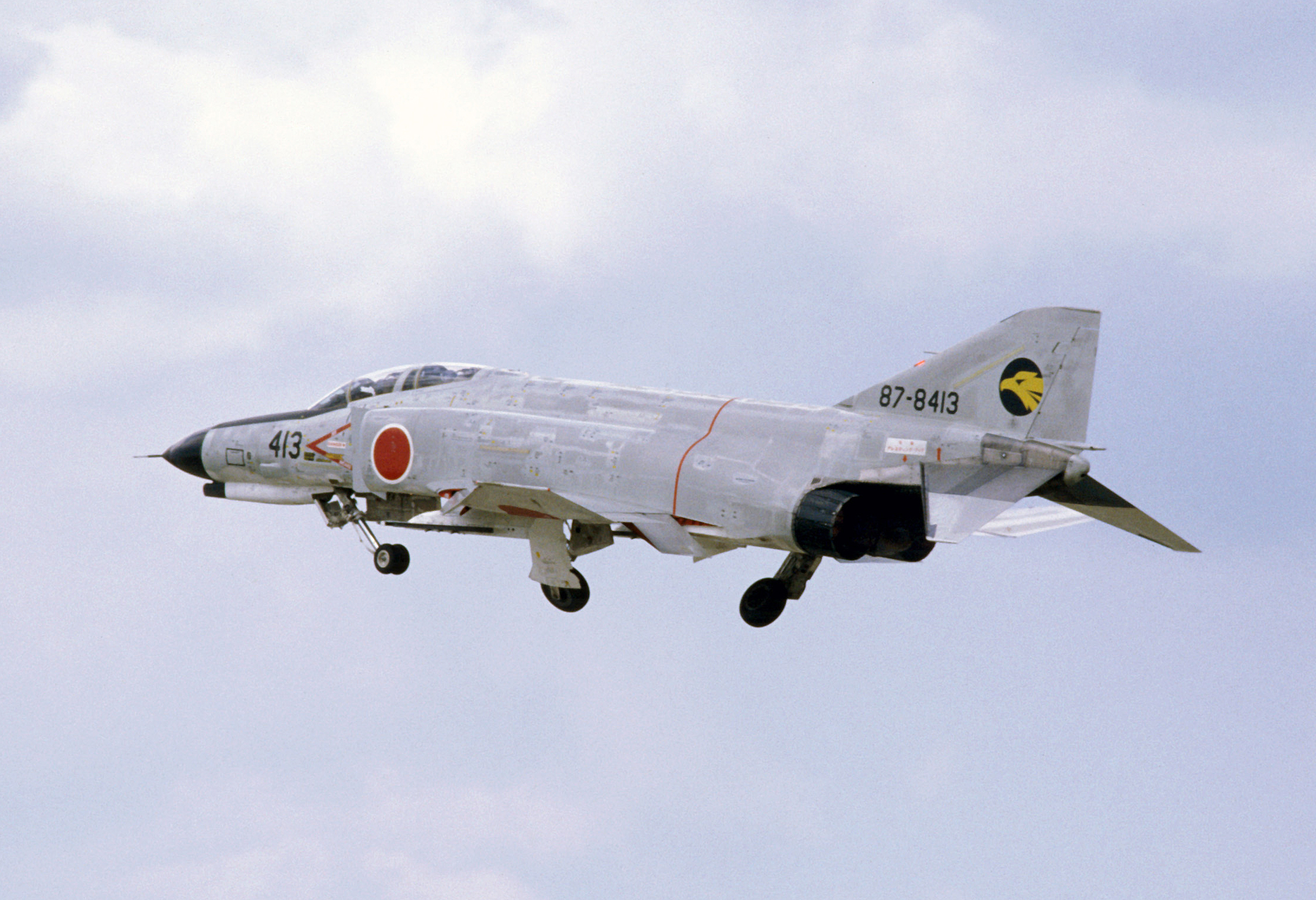 A left side view of Japanese F-4EJ (413) of 306 Sqn shortly after taking off from Komatsu Air Base during the joint US Japanese Exercise Cope North '86-3. (U.S. Air Force photo by Staff Sgt. James Ferguson)